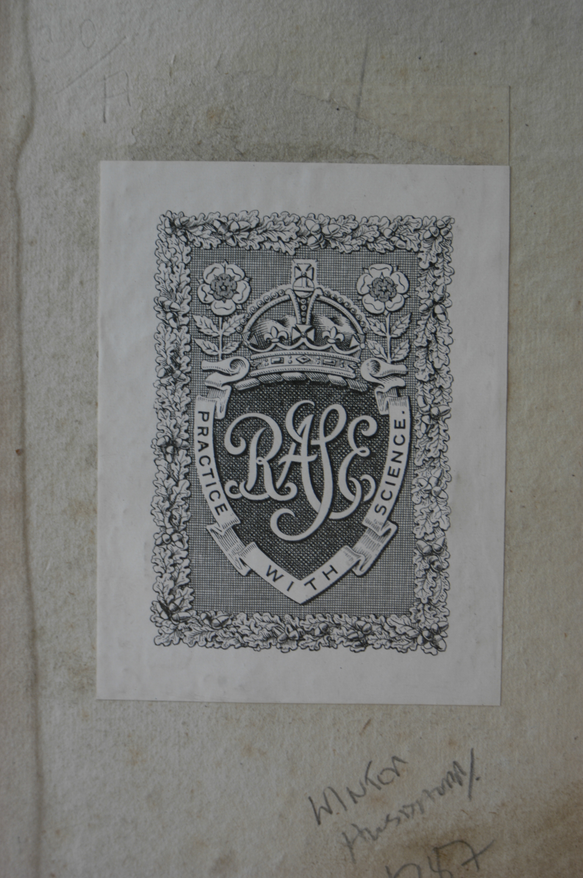 My photo, R. de SalisRodolph (talk), of a Royal Agricultural Society of England (RASE) bookplate, C19th UK design.